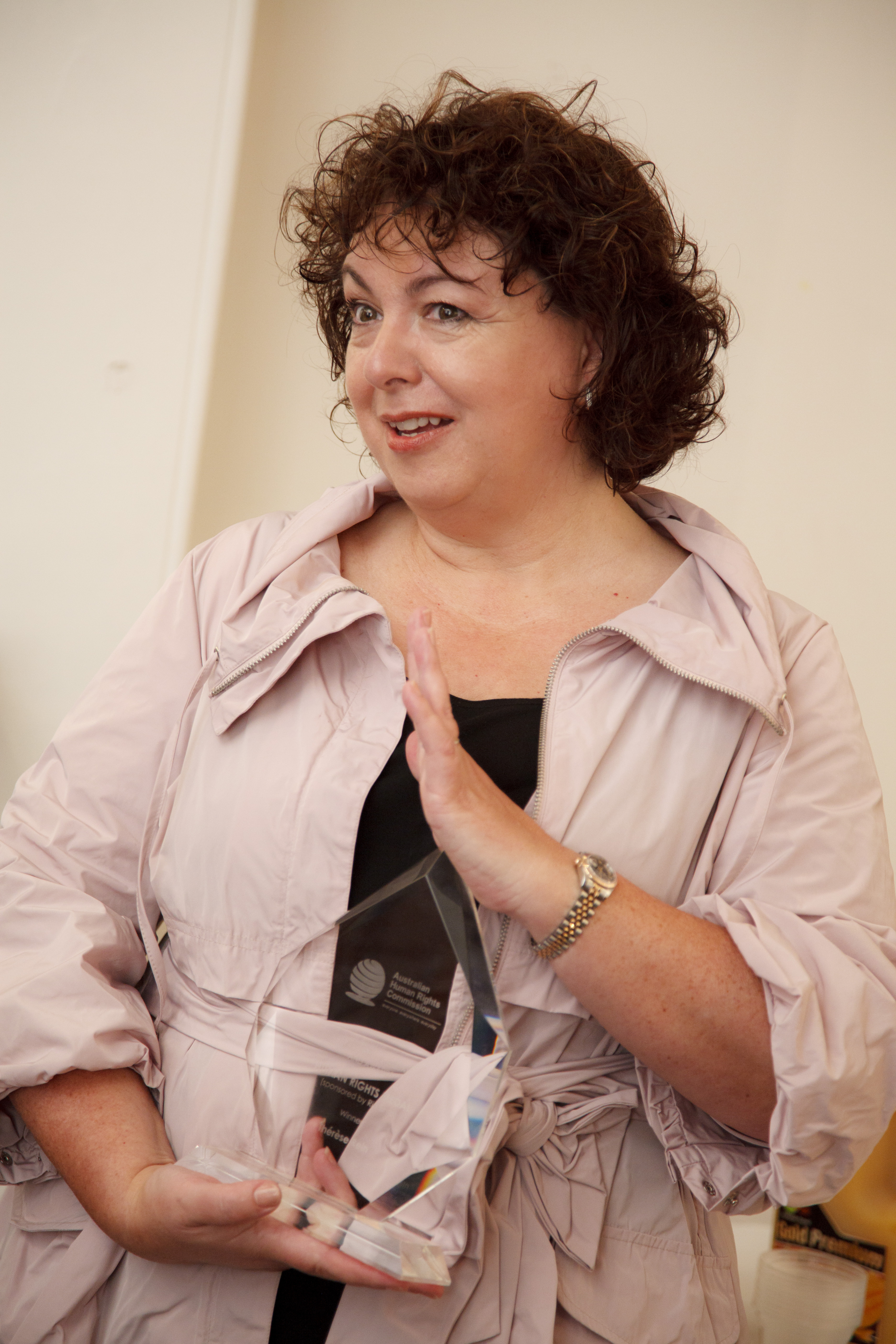 Therese Rein receiving the 2010 Human Rights Medal at a morning tea at the Institute Of Architects office at Tusculum at Potts Point.